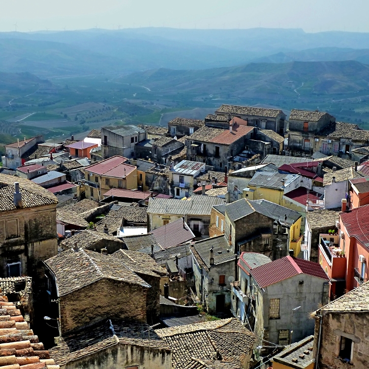 View of Cirò